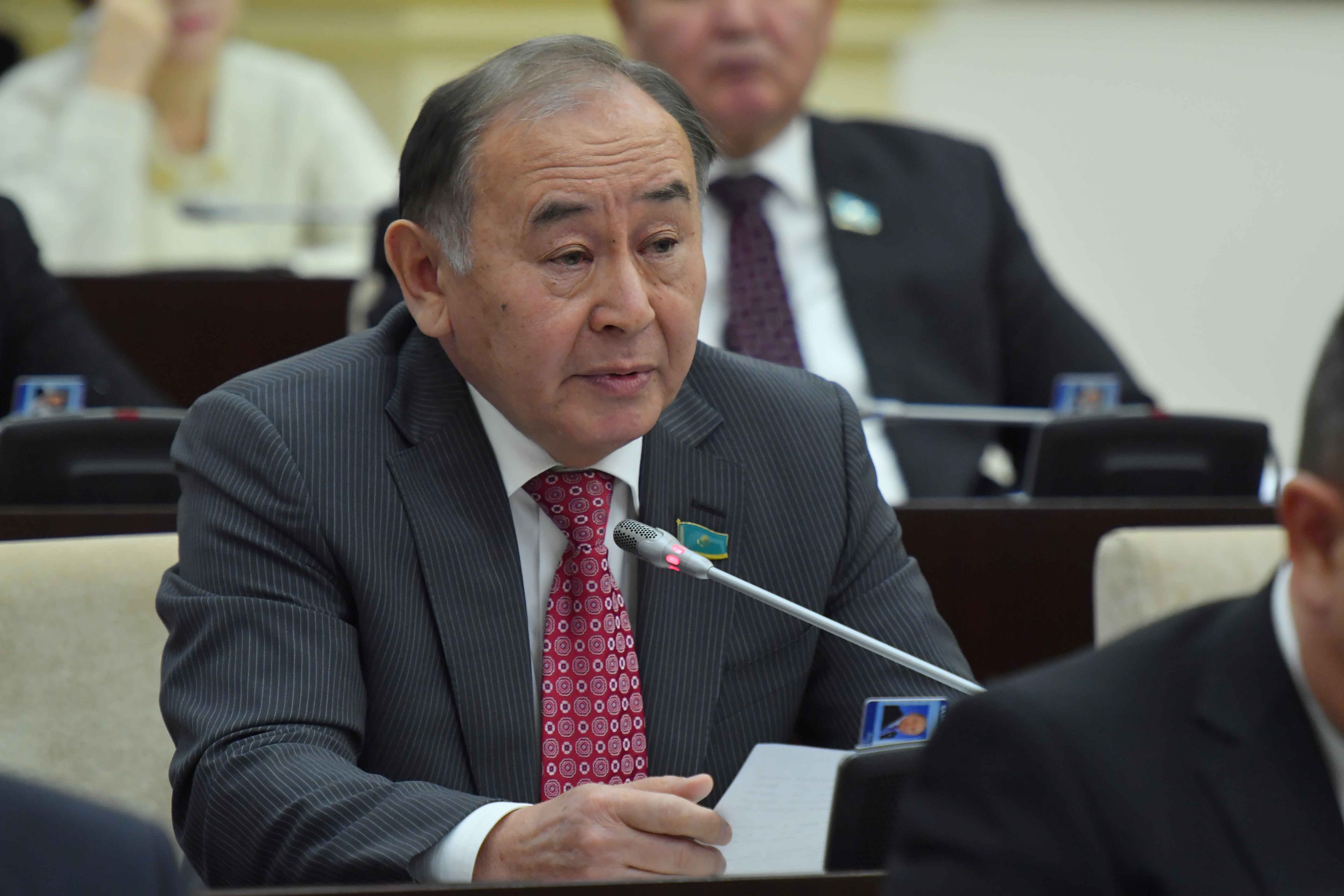 Dulat Kusdavletov